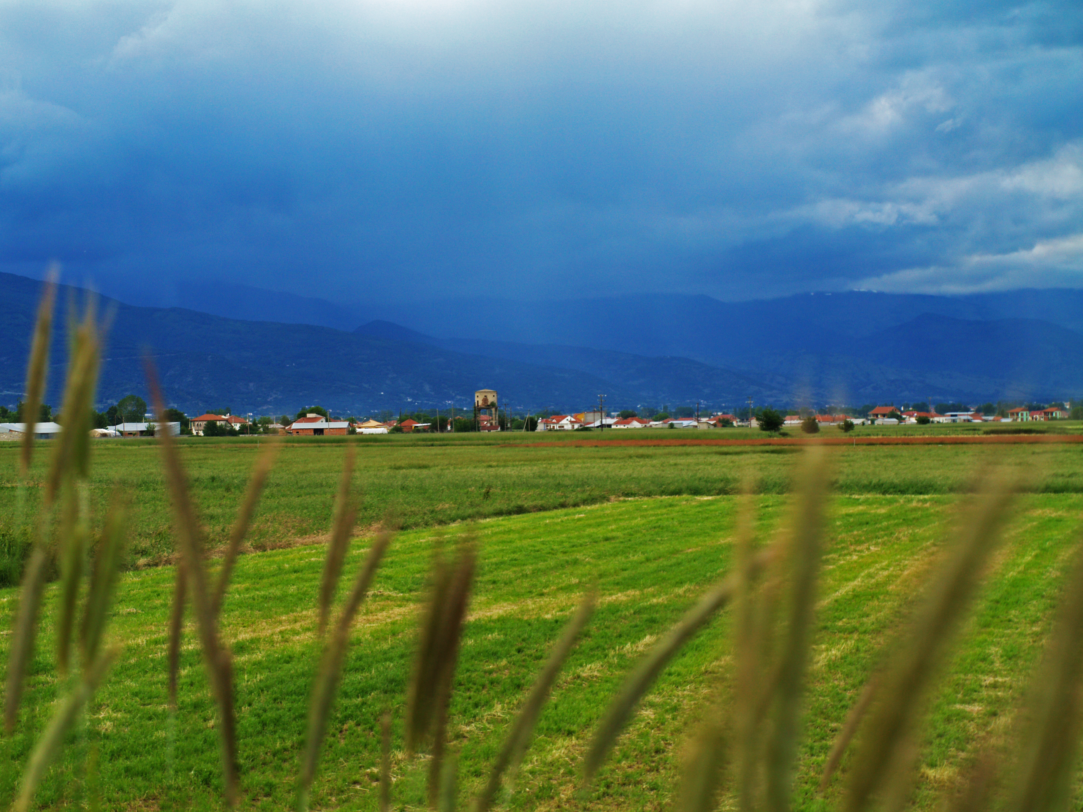 Panorama of village Pesotchnitsa, today Amohori, Greece